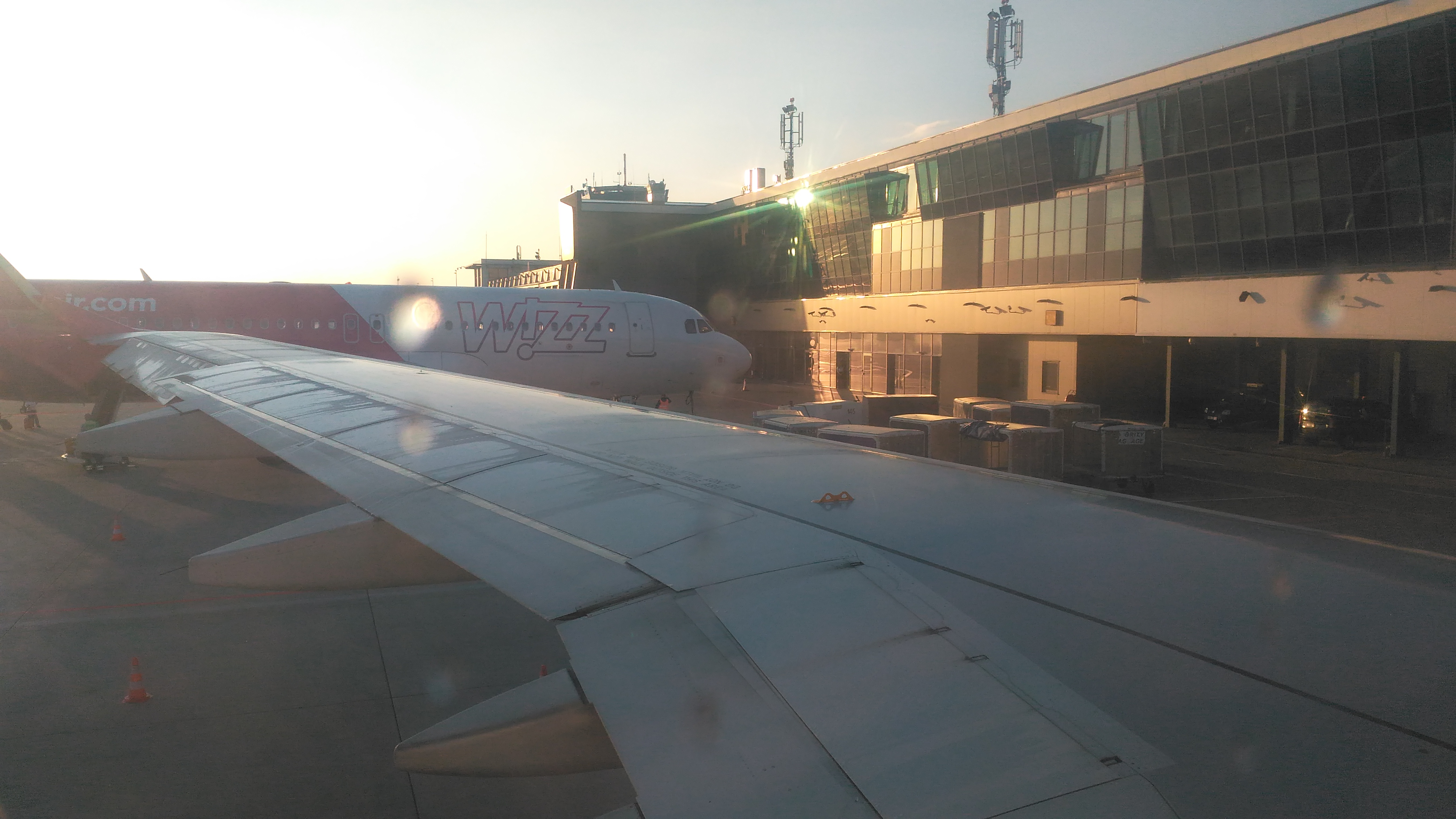 Wing view before departure with Terminal B